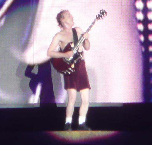 Angus Young plays a solo during "Let there Be Rock" during a performance at the Rogers Centre in Toronto